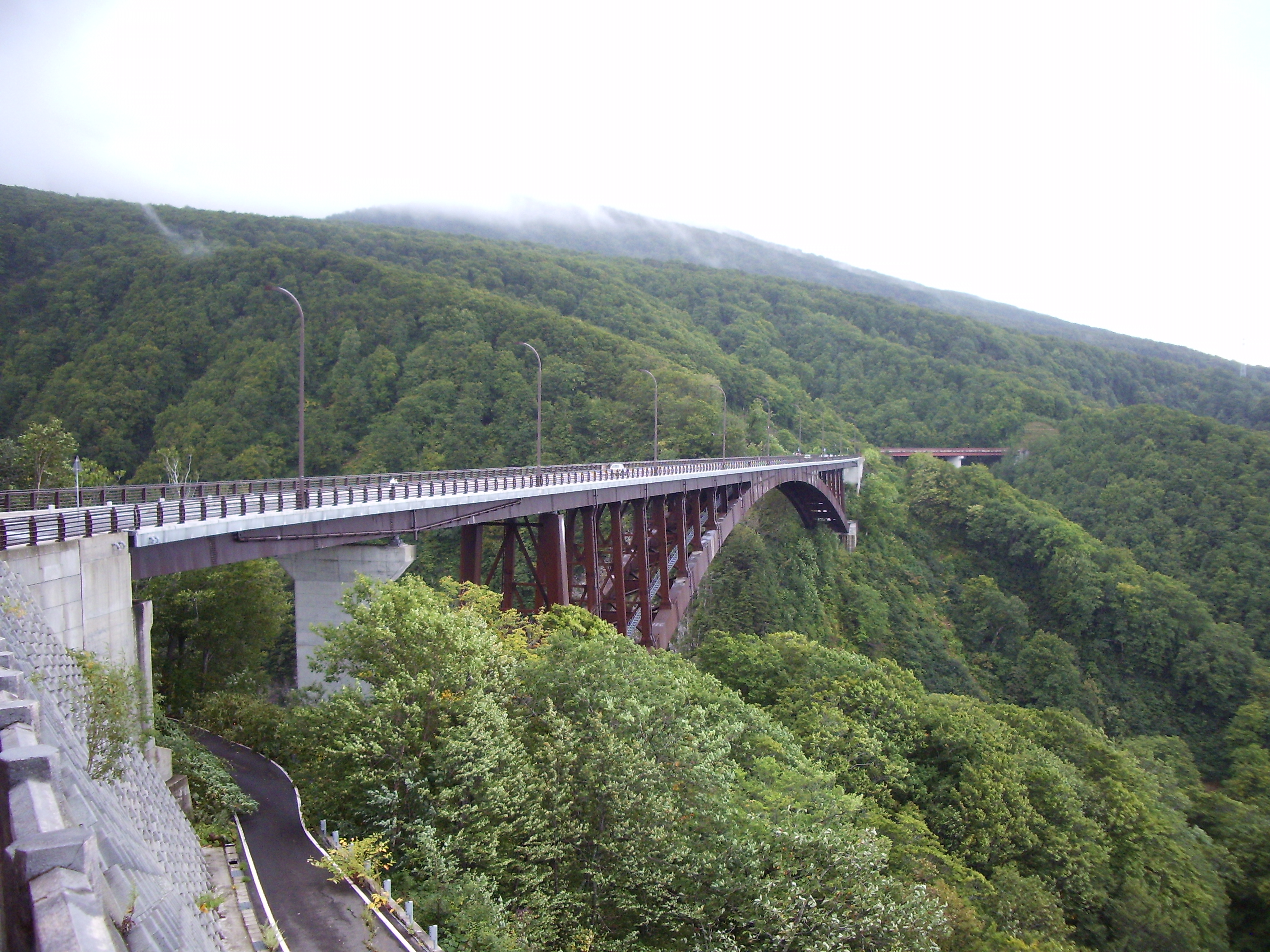 The Jogakura Bridge in Aomori, Japan